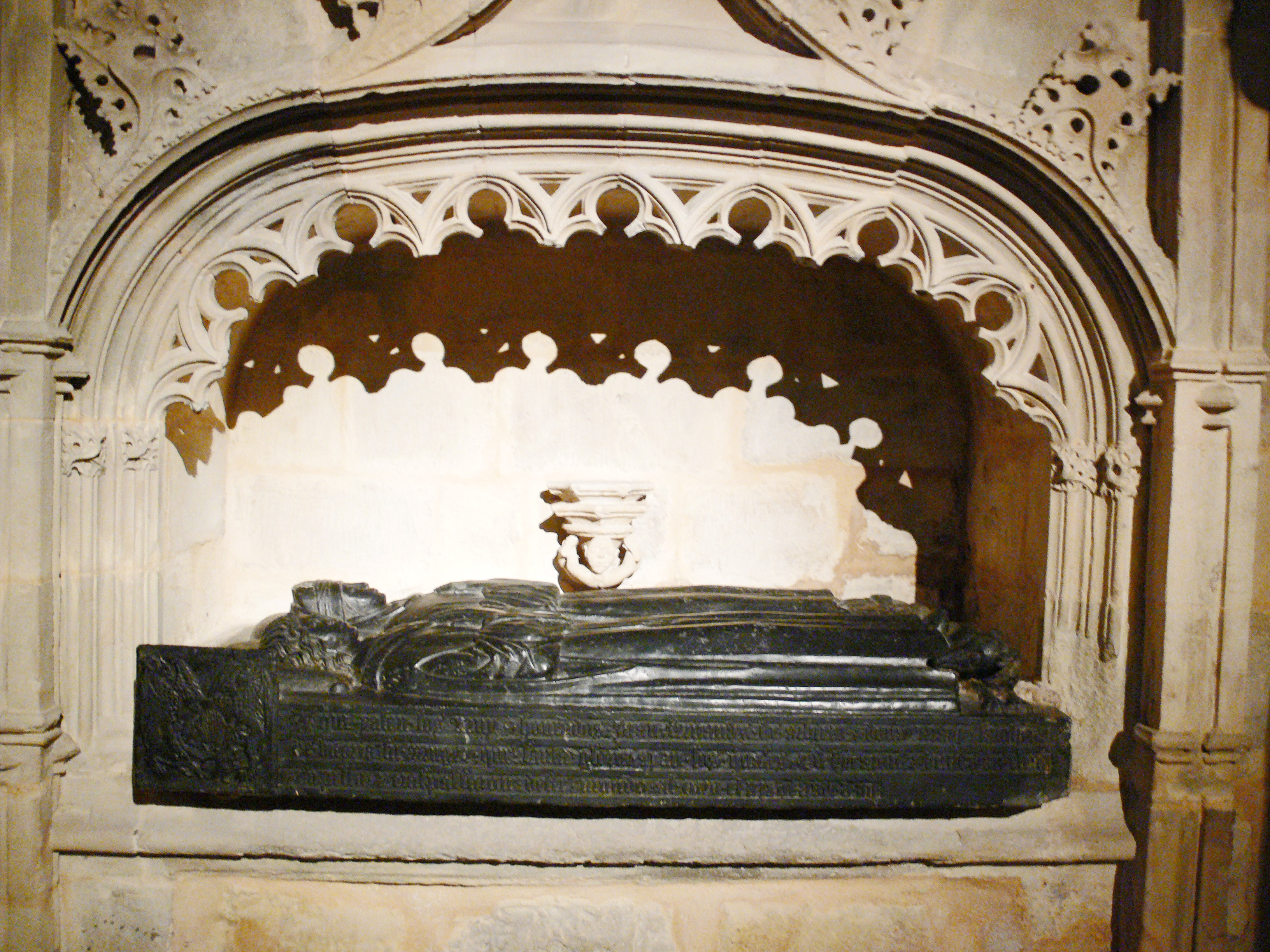 Catedral de Santiago, Bilbao, Spain. Chapel of San Antón